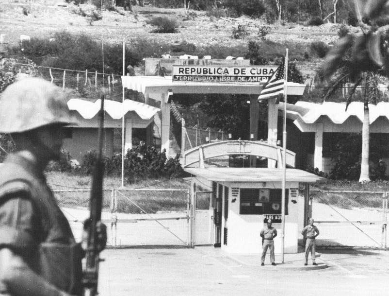 View of the North East Gate at the U.S. Navy base at Guantanamo Bay, Cuba, in 1969.